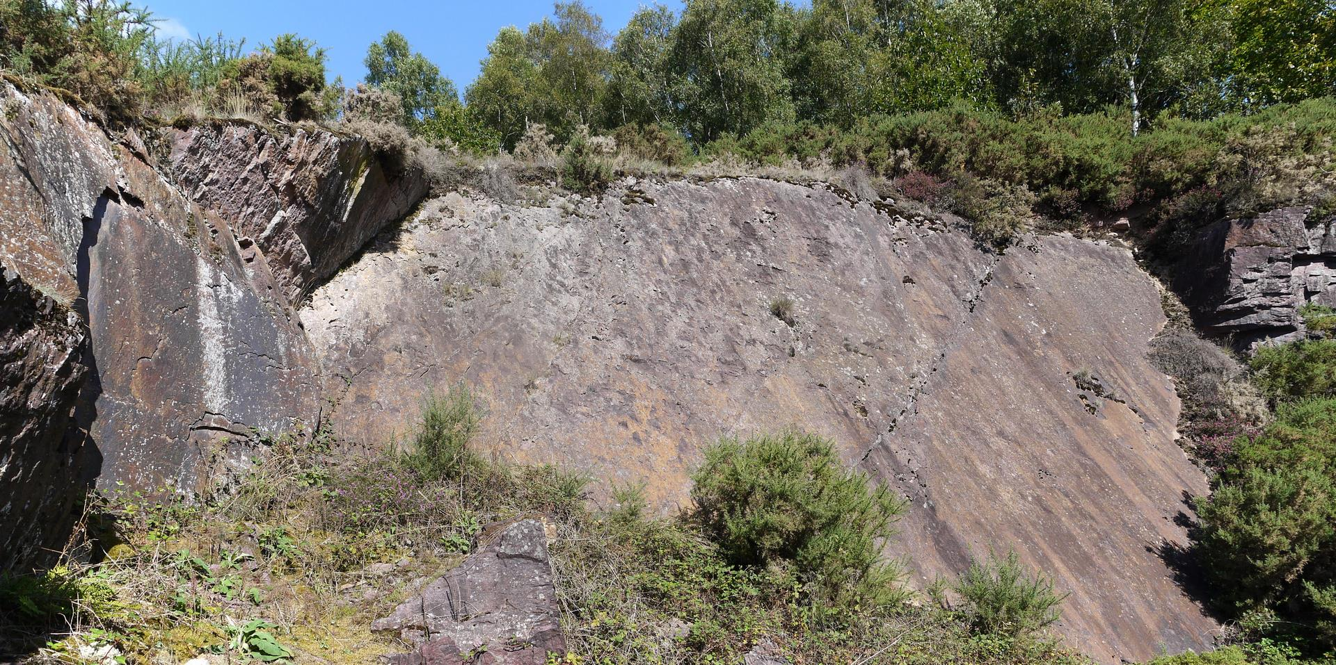 Fault plane (fault scarp) exposed in Sainte-Apolline quarry at Butte de Tiot in Morbihan in France.